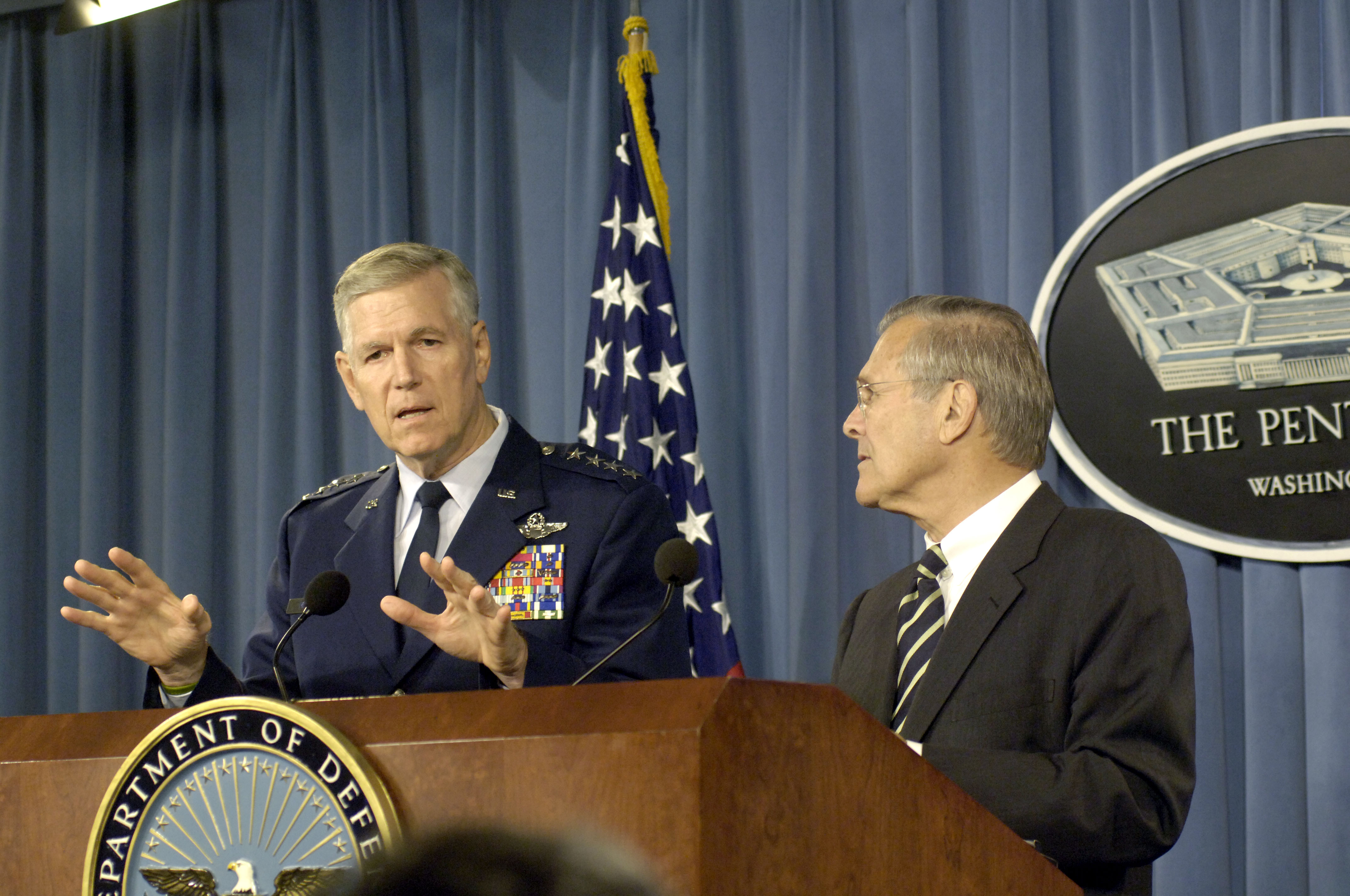 Chairman of the Joint Chiefs of Staff Gen. Richard B. Myers (left), U.S. Air Force, and Secretary of Defense Donald H. Rumsfeld (right) conduct a Pentagon press briefing on Sept. 20, 2005. Myers stated that the forces of the National Guard are not being over extended by commitments in Afghanistan, Iraq and hurricane relief work.